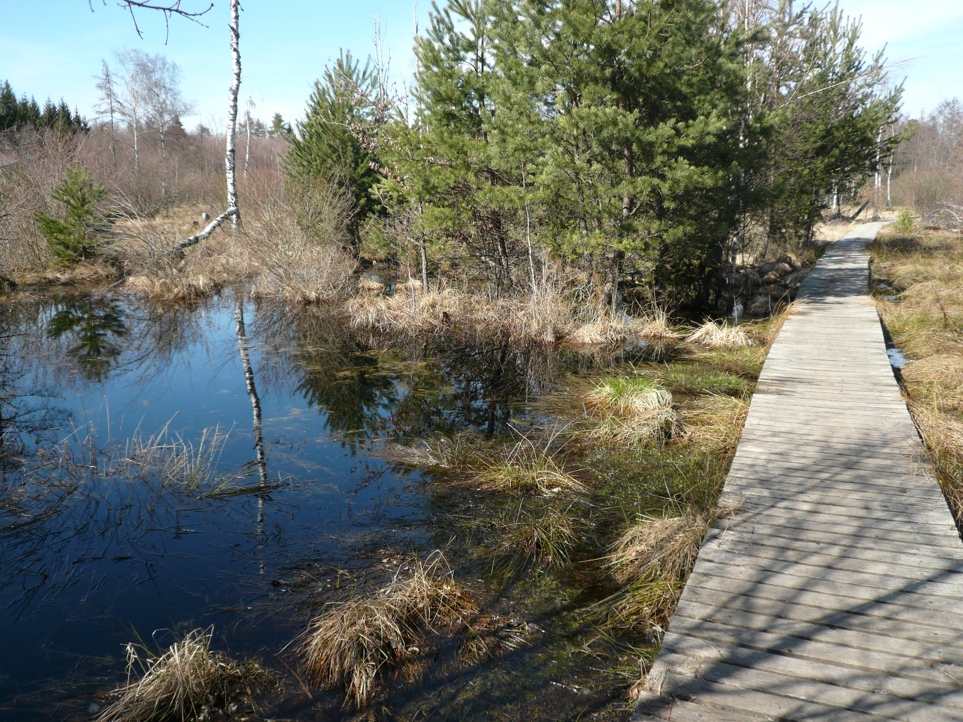 Birkensee in Schoenbuch